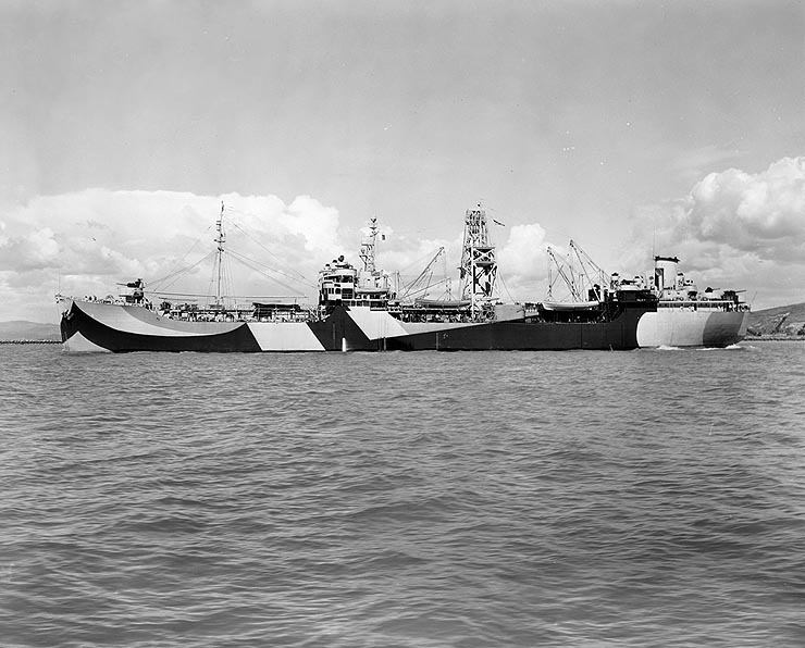 USS Abatan (AW-4) Original caption: "Photo # NH 83897 - USS Abatan off the Mare Island Navy Yard, 18 February 1945" — Original caption: "1269-45����(AW4).Broadside, port. Alterations circled on M.I. Photos No. 1322-45 to 1326-45 inc. Mare Island, Cal.����18 February 1945." — from watermark